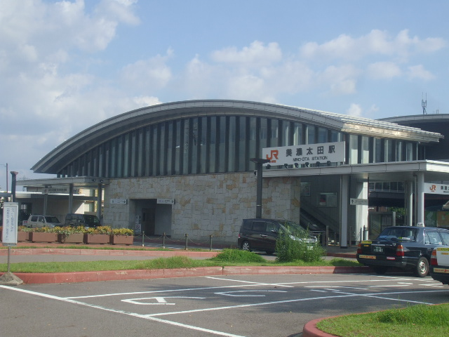 JR Mino-ota Station